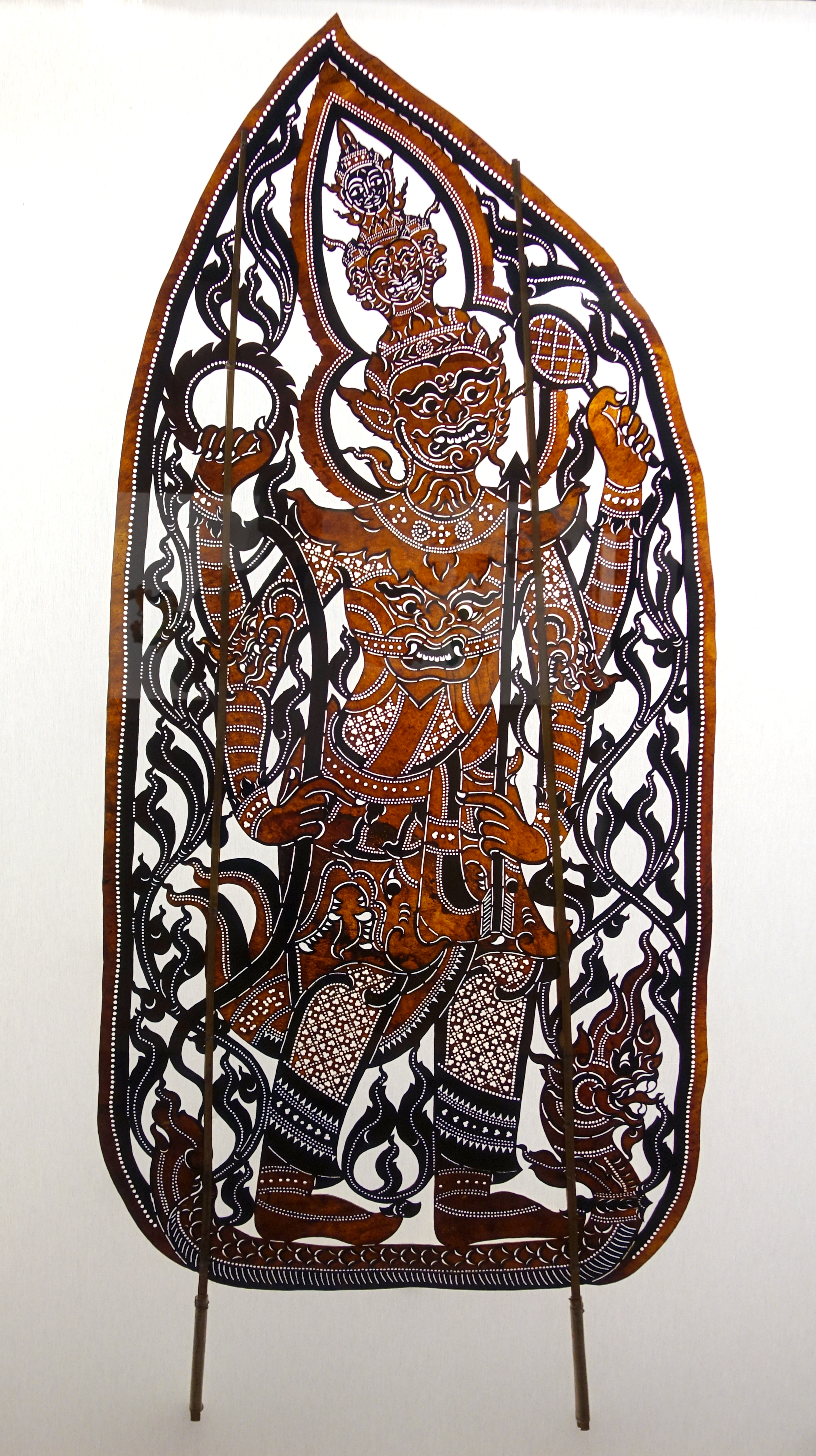 Exhibit in the Museu do Oriente - Lisbon, Portugal. This work is old enough so that it is in the public domain.